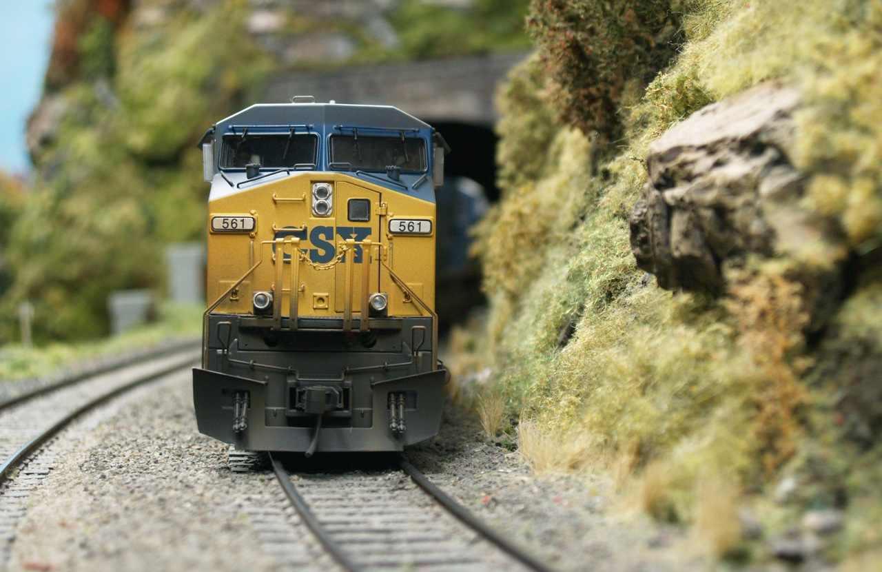 Scale model of UP561, a General Motors Electro-Motive Division (EMD) SD60M diesel locomotive of Union Pacific Railroad Connecting Mainline (NYSME). It is possible a comparison with the real UP2497